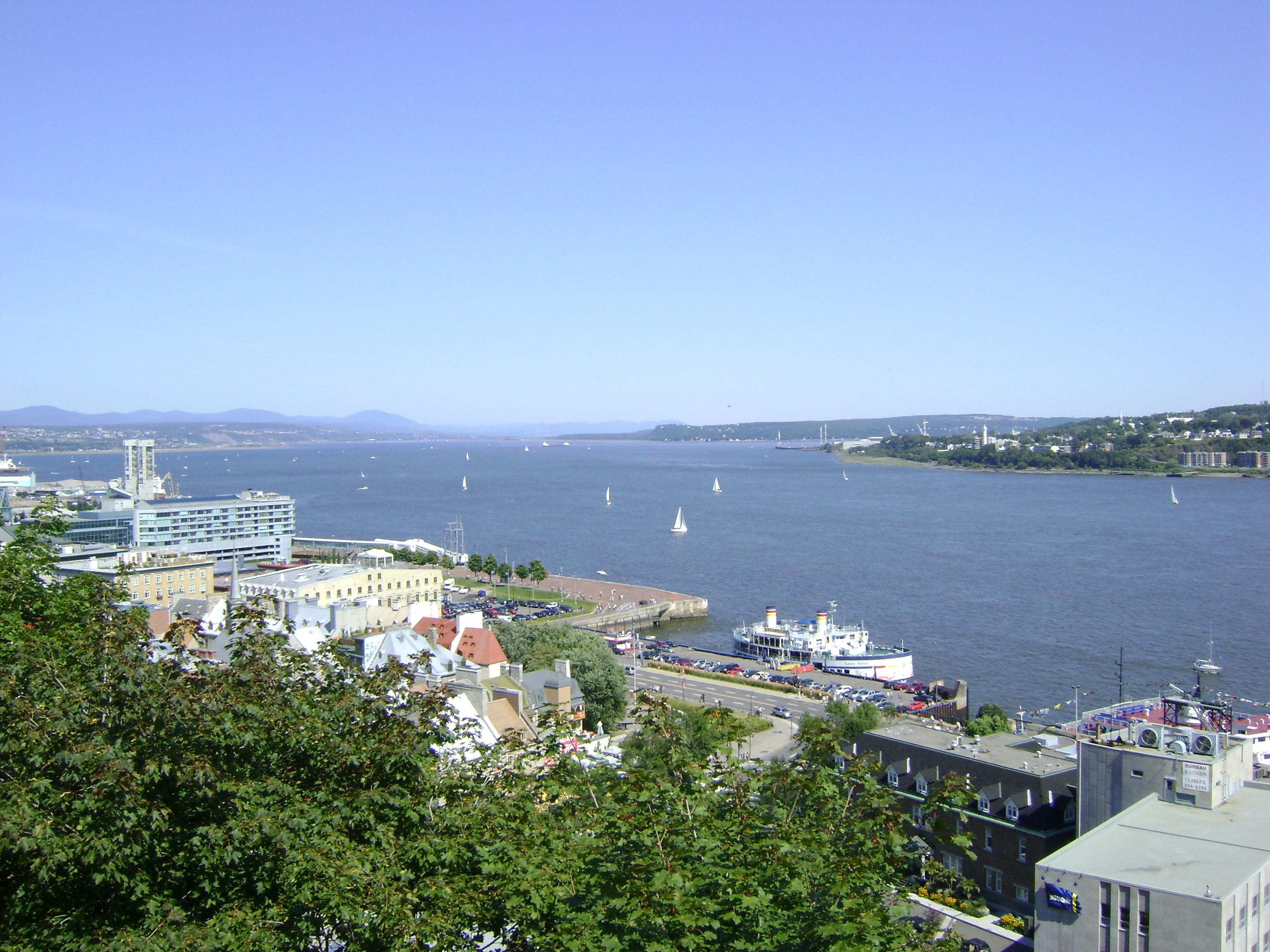 Quebec City